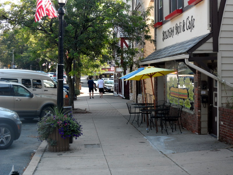 White Deer Plaza and Boardwalk District This photo was taken in Sparta NJ.